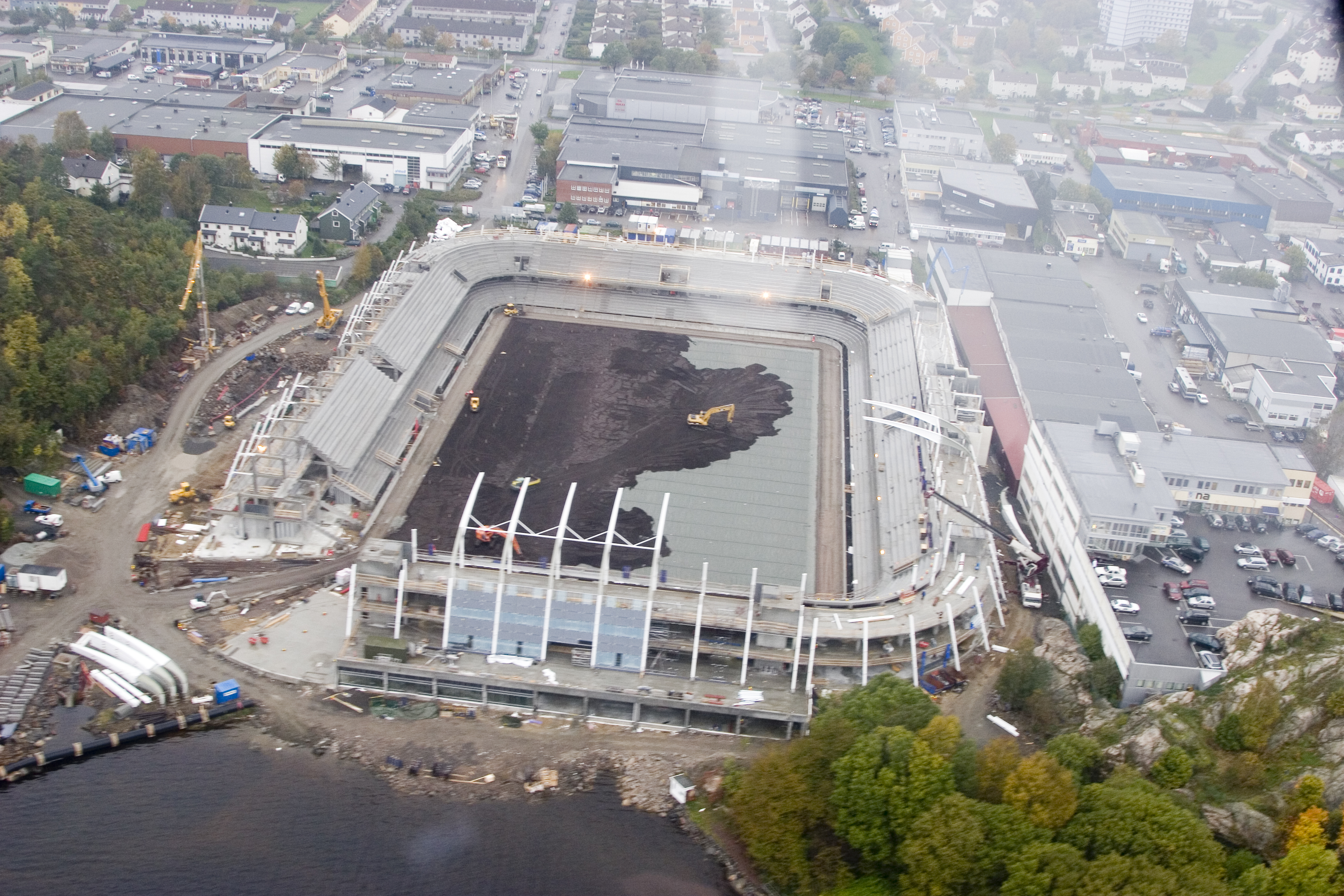 Sør Arena, the new football stadium under construction in Kristiansand, Norway, seen from a helicopter on 2006-10-19. Photographed and uploaded by Jarle Hammen Knudsen.